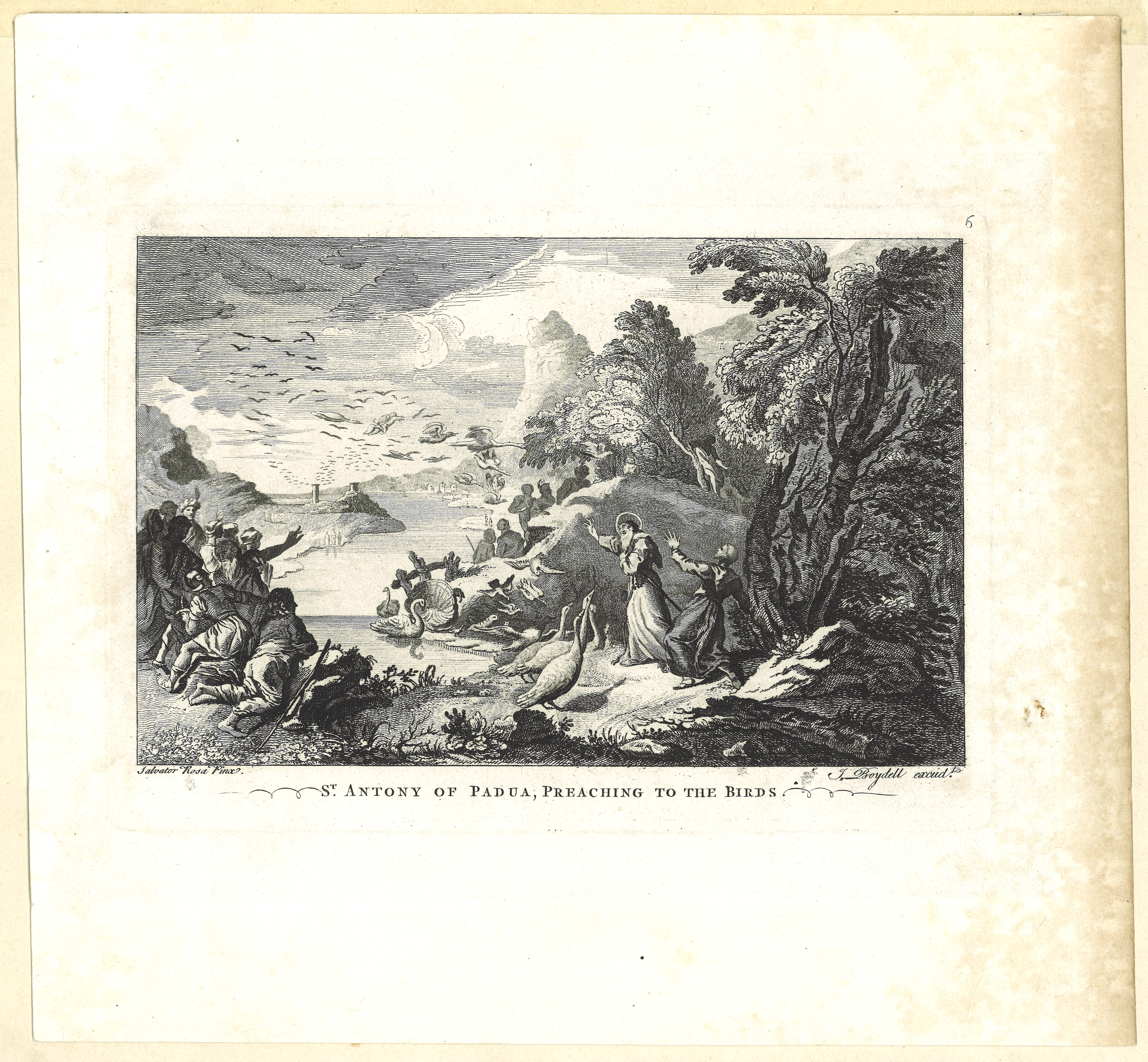 Anthony of Padua, Preaching to the Birds. Salvator Rosa pinxit, John Boydel excudit "6" on the right corner above the wood engraving